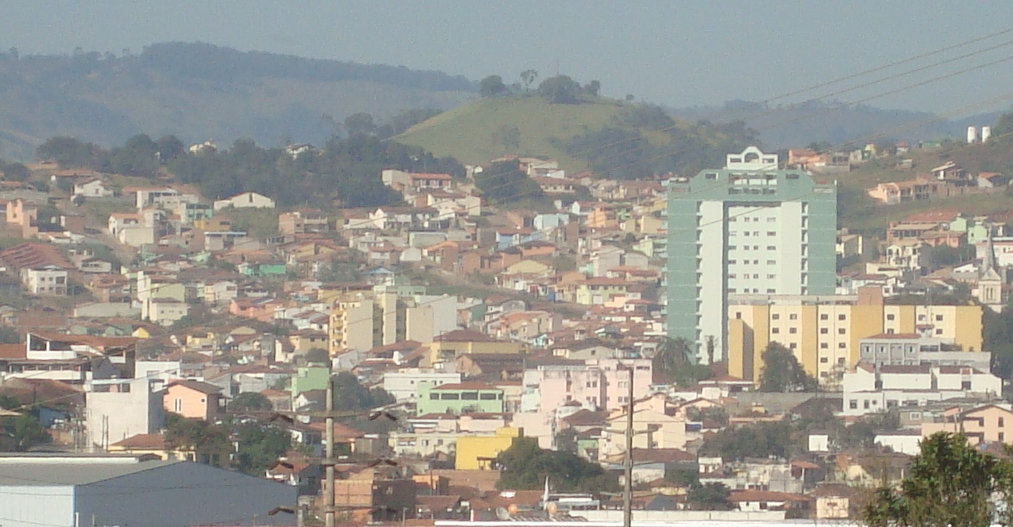 Downtown Cambui, Minas Gerais, Brazil